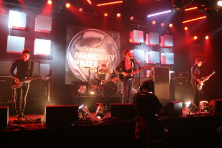 Editors performing at mercury prize show